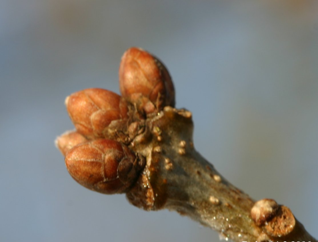 Description: Quercus robur, buds. Source: Own photo, taken in Jutland, Mar 2006. Author: Sten Porse